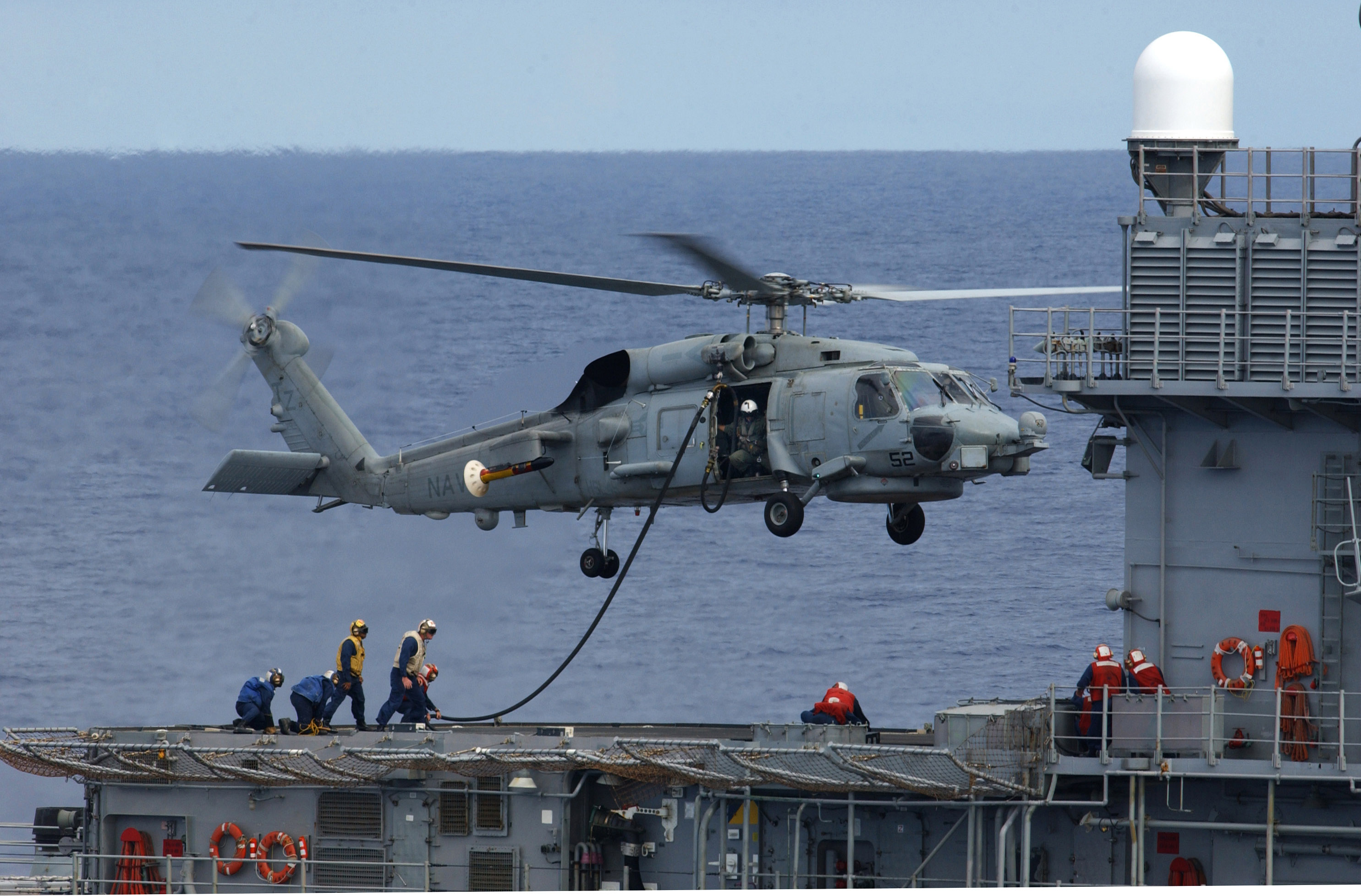 060703-N-7526R-049 Pacific Ocean - An SH-60B Seahawk assigned to the "Wolfpack" of Helicopter Anti-Submarine Squadron Light Four Five (HSL-45) hovers over the flight deck of the guided-missile cruiser USS Lake Champlain (CG 57), receiving fuel during a sea power demonstration for Sailors and their families aboard the Nimitz-class aircraft carrier USS Ronald Reagan (CVN 76). Ronald Reagan and embarked Carrier Air Wing One Four (CVW-14) are completing a regularly scheduled deployment in support of the global war on terrorism and maritime security operations.